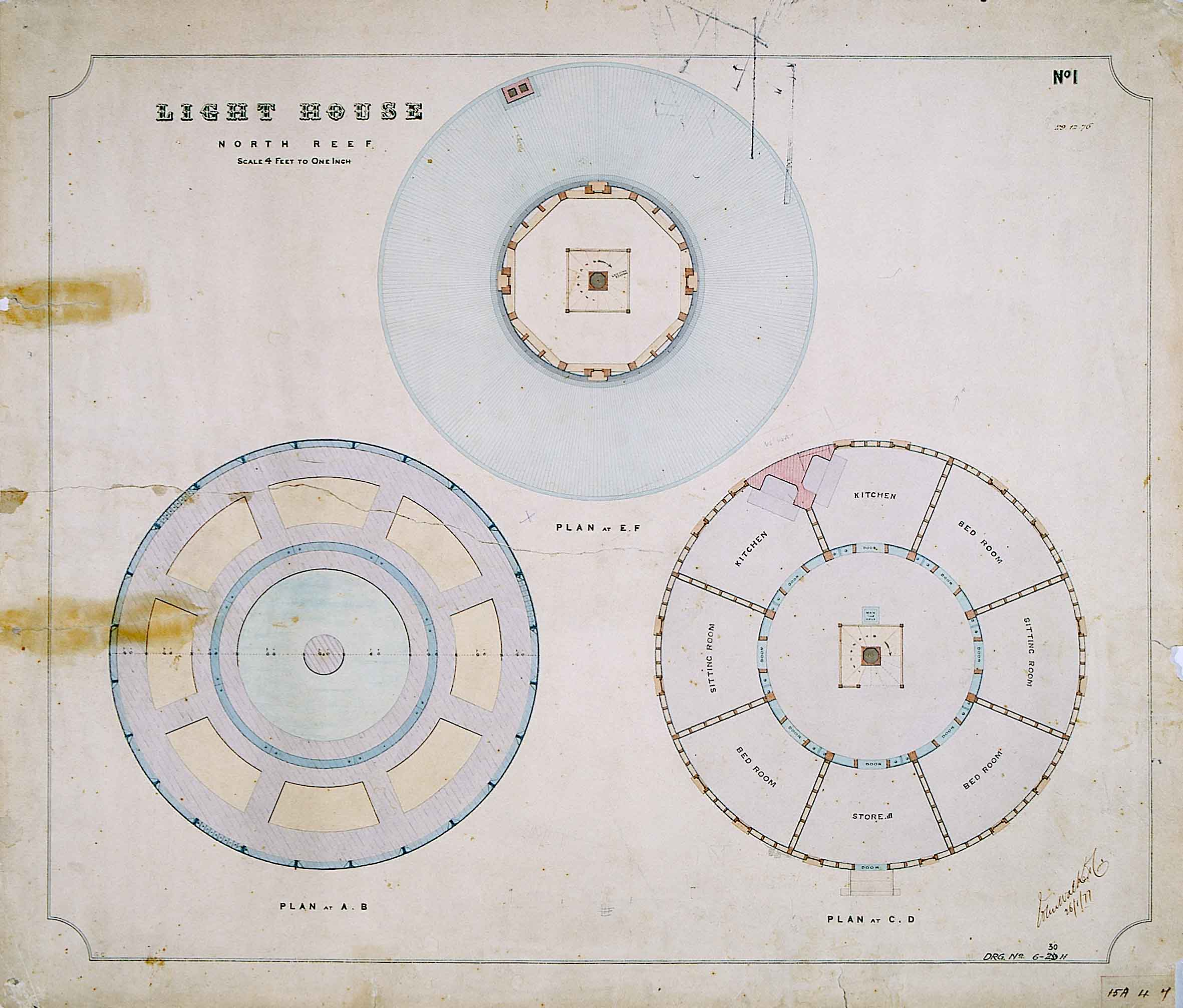 Lighthouse, North Reef - Floor plans, 1876